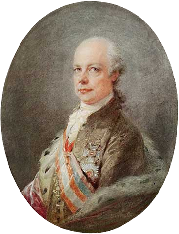 Portrait of Emperor Leopold II (1747-1792)